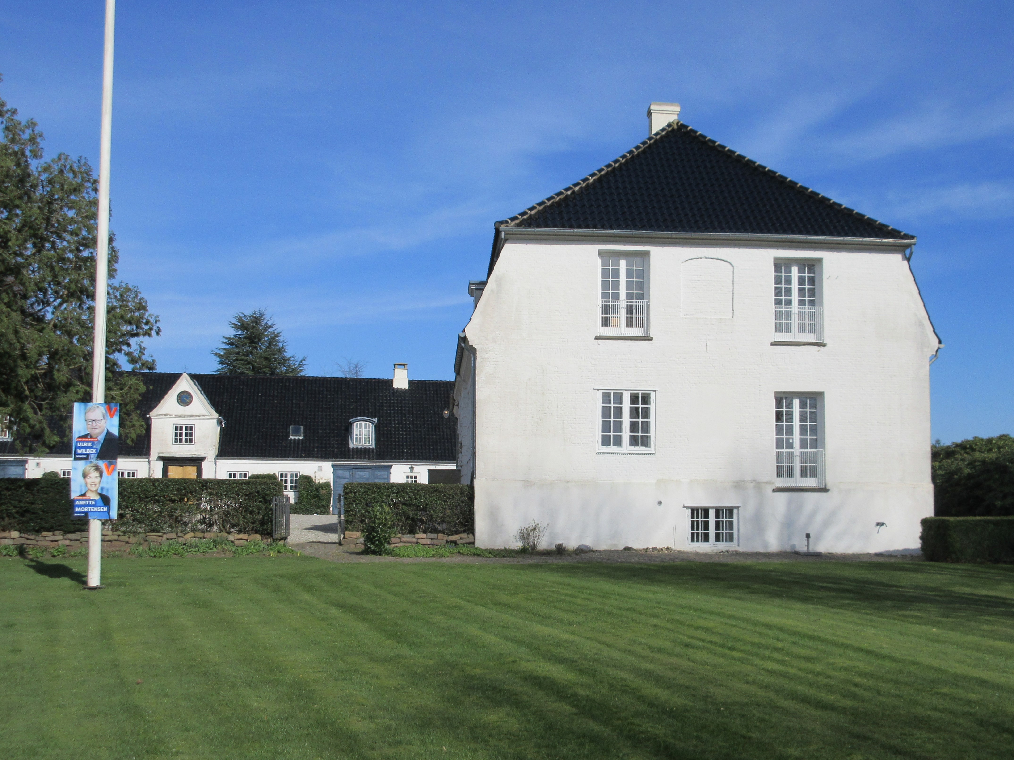 Carlsminde (Søllerød)